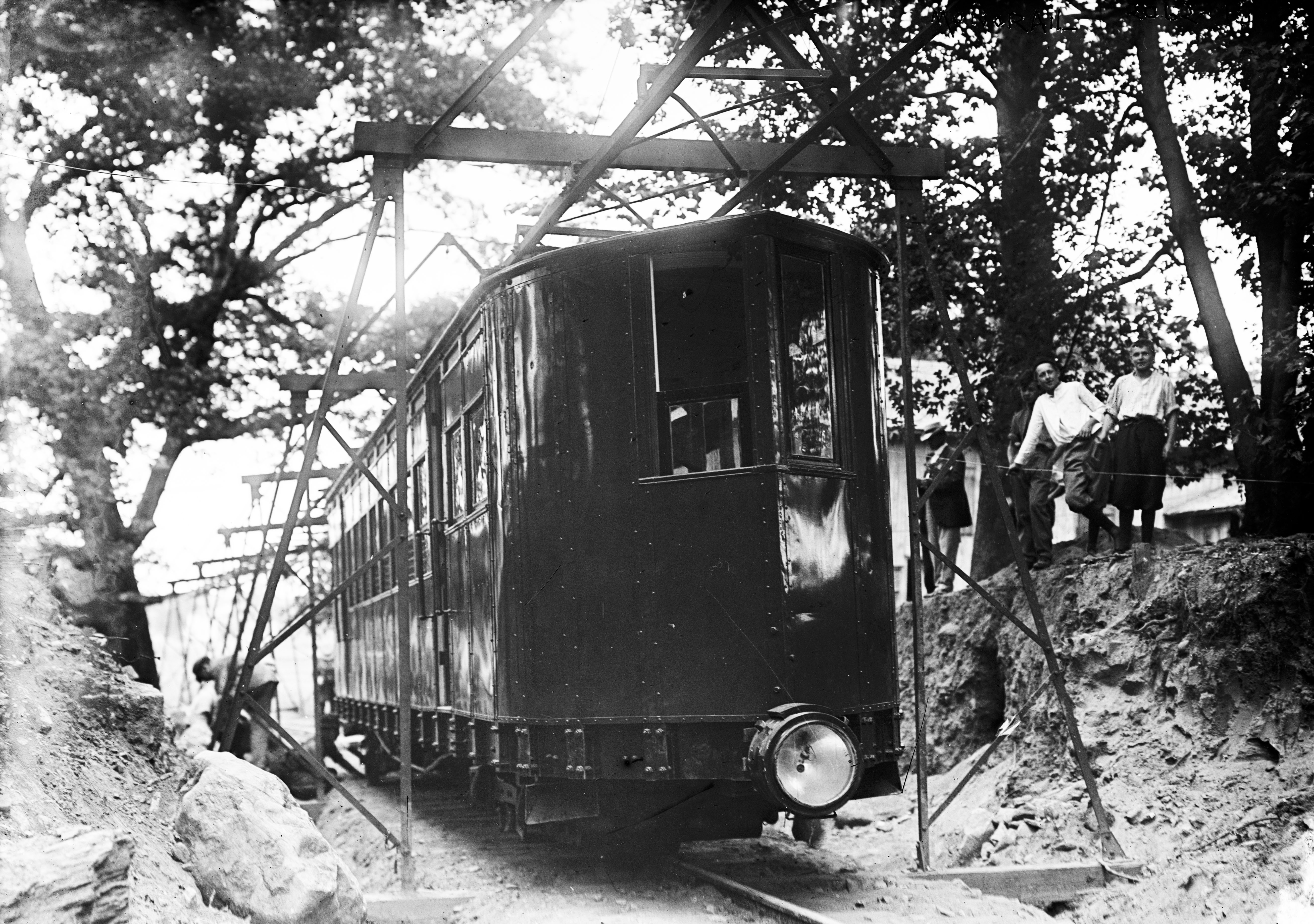 Monorail car of the Pelham Park & City Island Railroad, in the Bronx, New York.